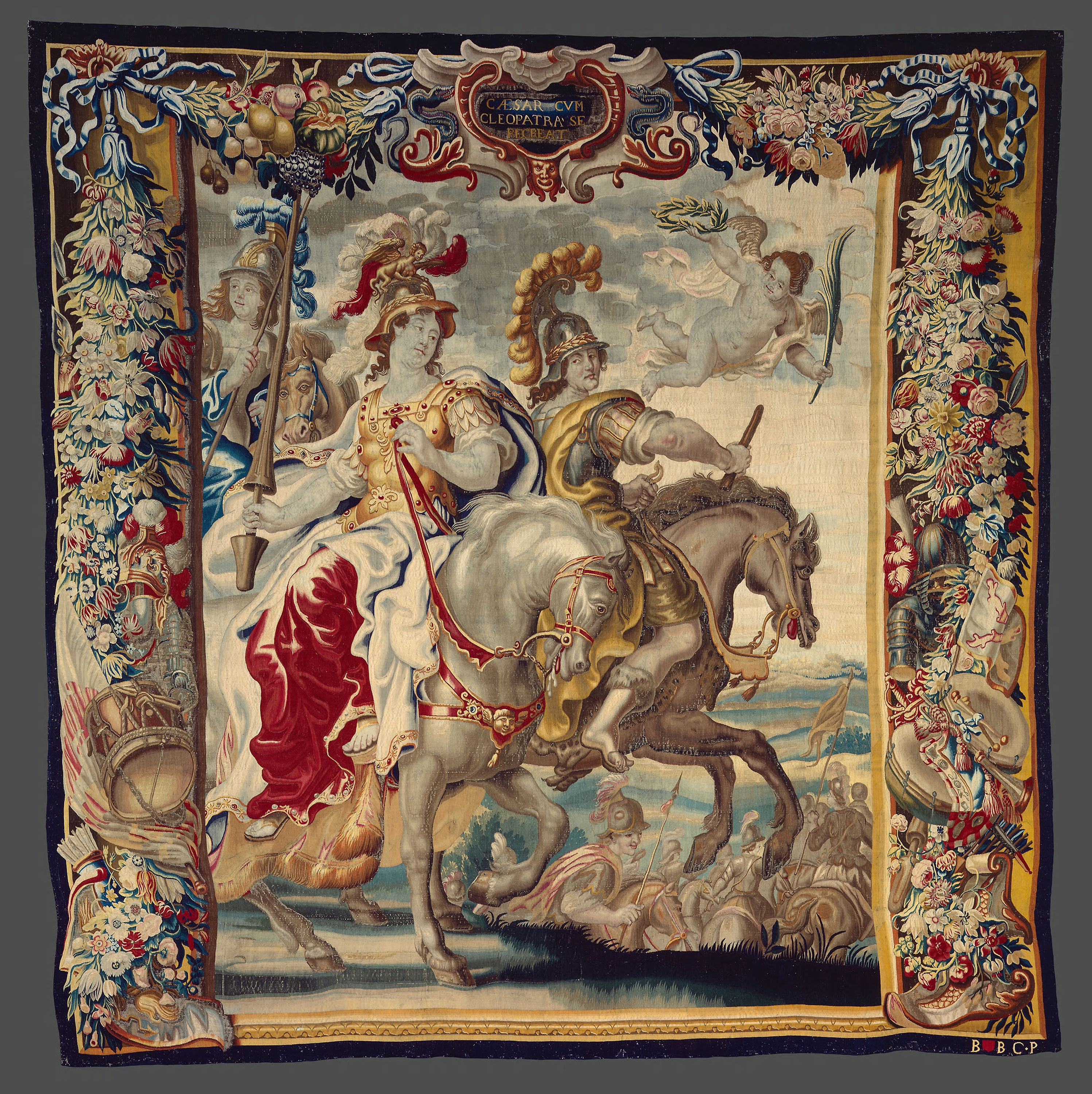 Caesar and Cleopatra Enjoying themselves from the story of Caesar and Cleopatra by Justus van Egmont